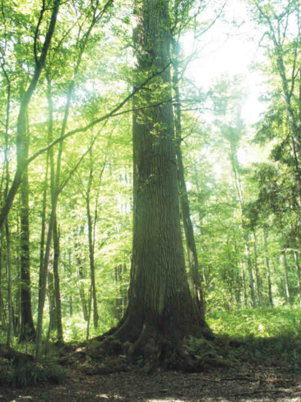 Oak "The Emperor of the South".